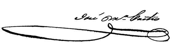 José María Castro Madriz's signature, President of Costa Rica (1847-1849) (1866-1868)